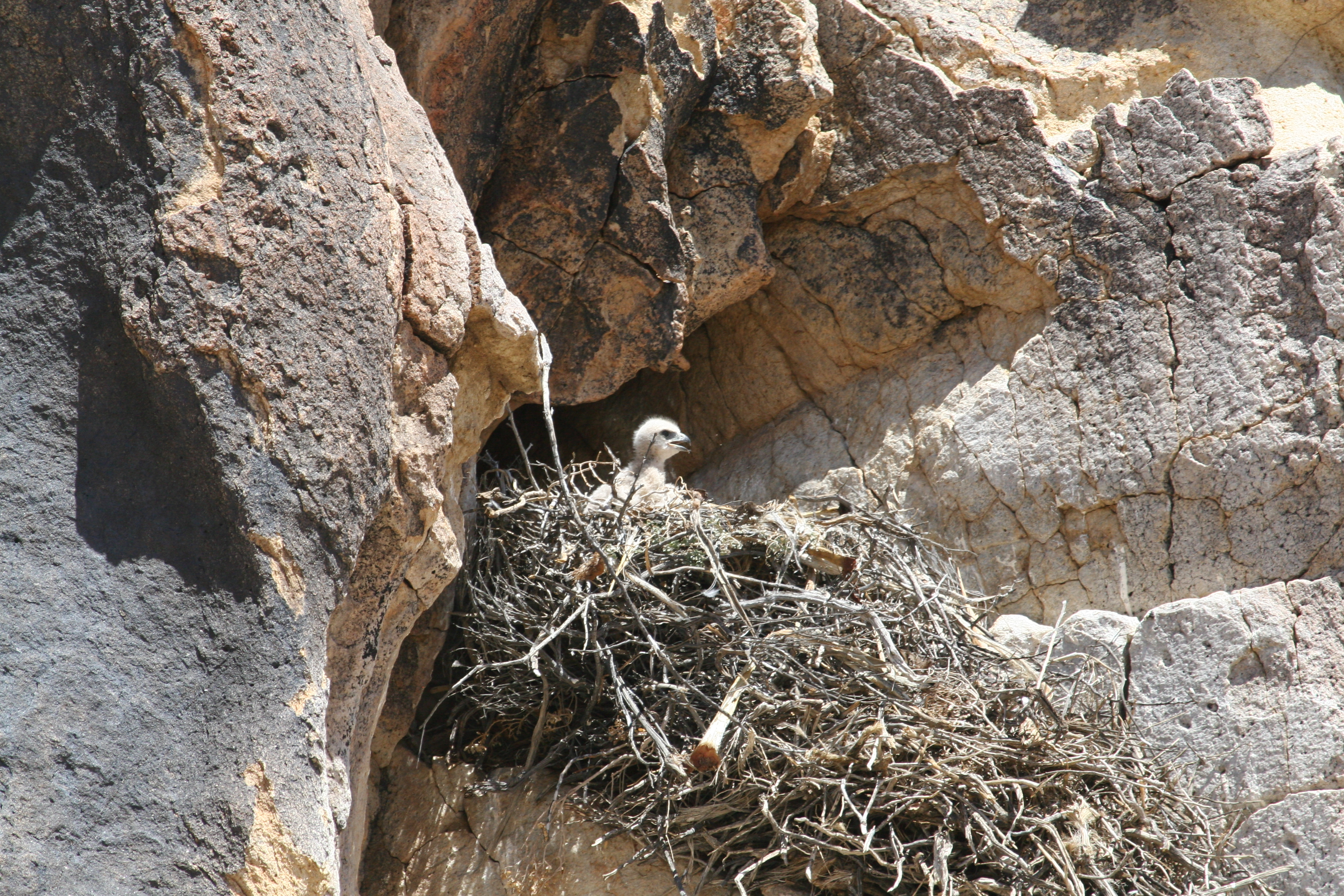 Red-tail hawk (Buteo jamaicensis) chick, Joshua Tree National Park. NPS/Andrew Eberly